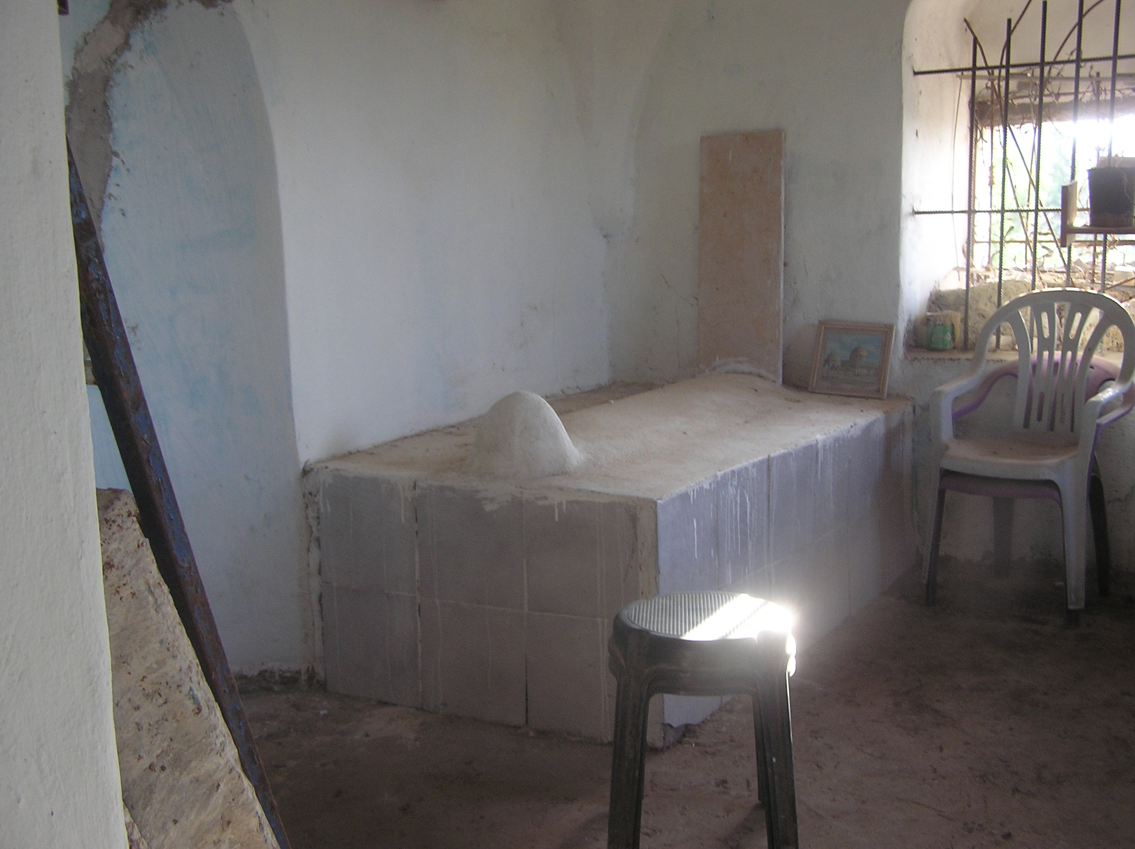 Maqam sheikh Shahada, Ayn Ghazal.